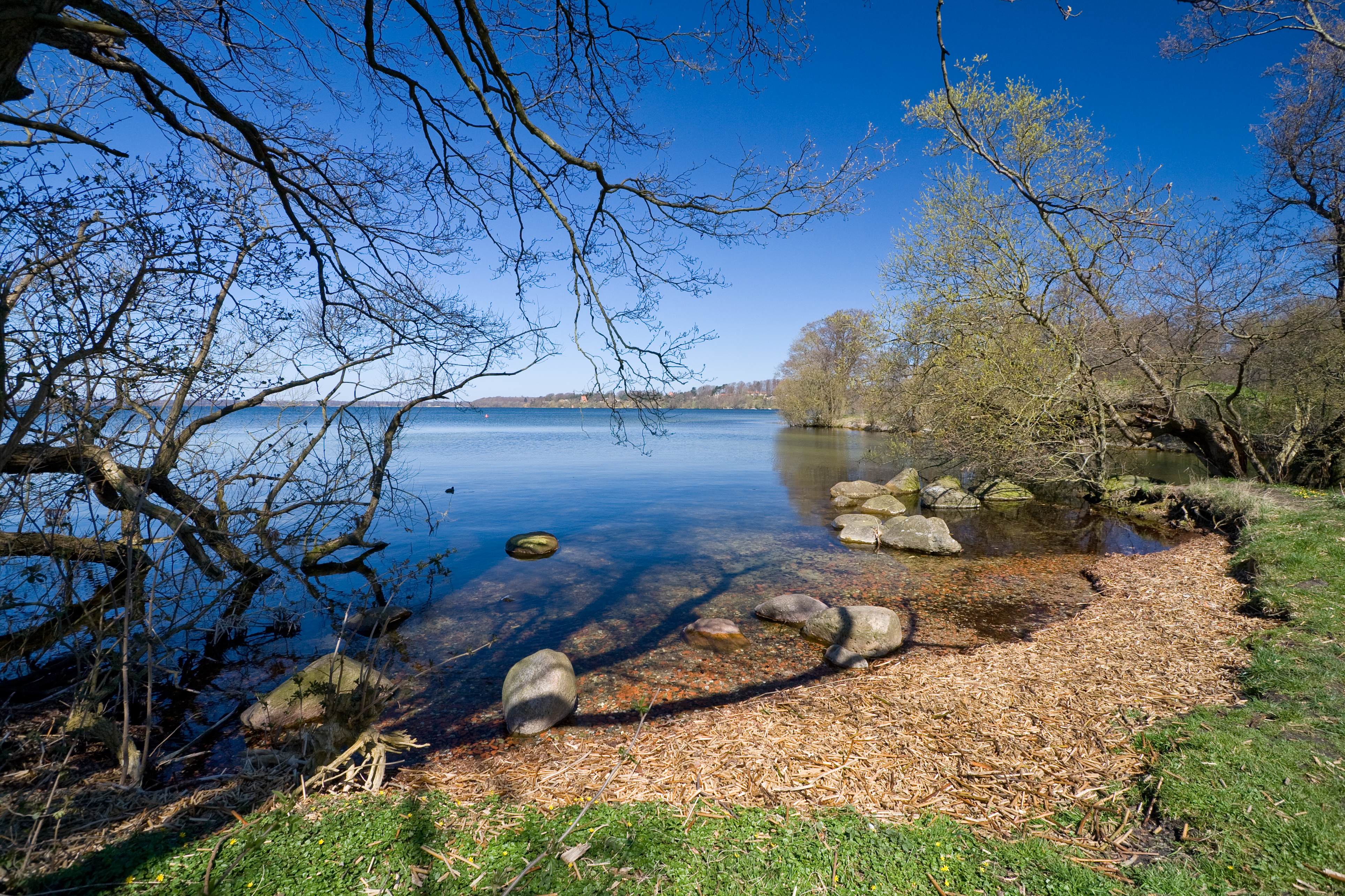 Lake Furesøen at Frederiksdal on the island of Zealand, Denmark